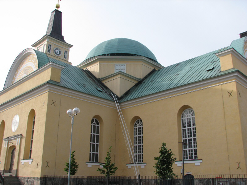 Oulu Cathedral in Oulu, Finland.